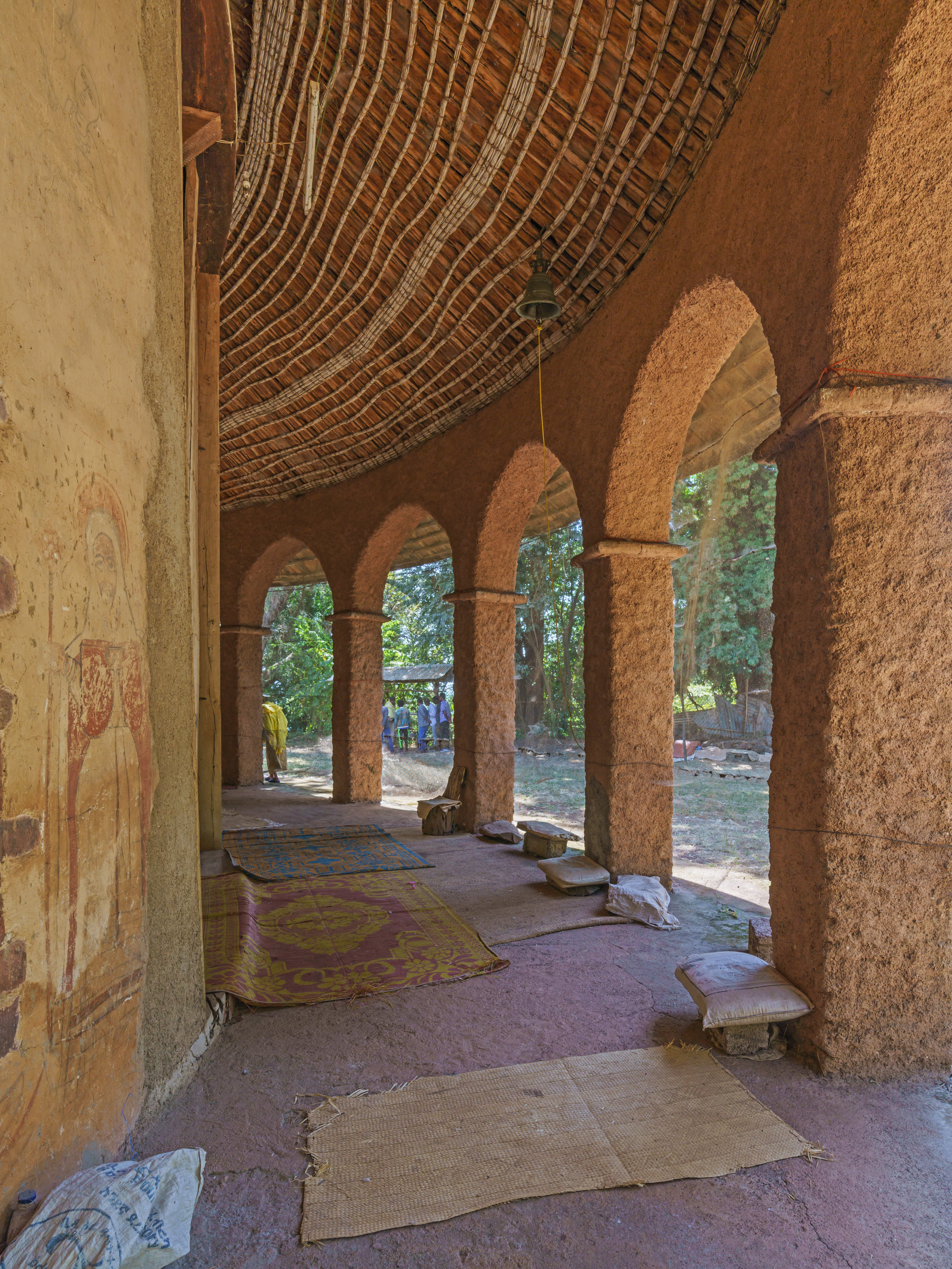 Kebran St. Gabriel Monastery – Lake Tana near Bahir Dar, Ethiopia